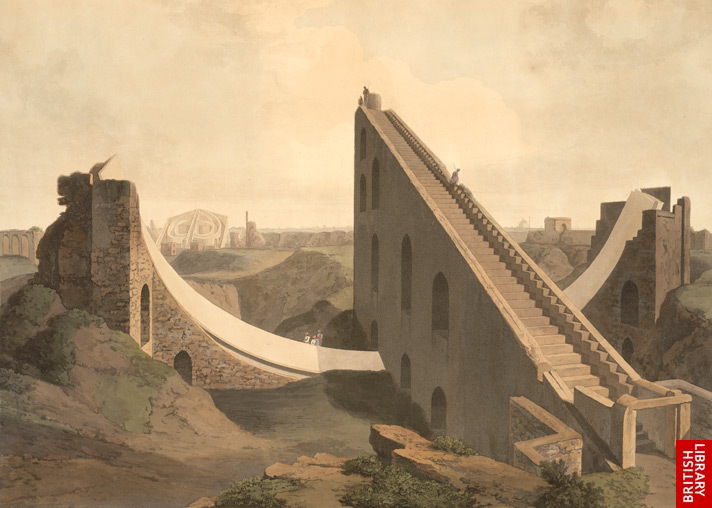 Samrat Yantra and behind it the Jai-Prakash Yantra, which consists of two concave hemispherical structures used to measure the sun's position of the sun and other celestial bodies.